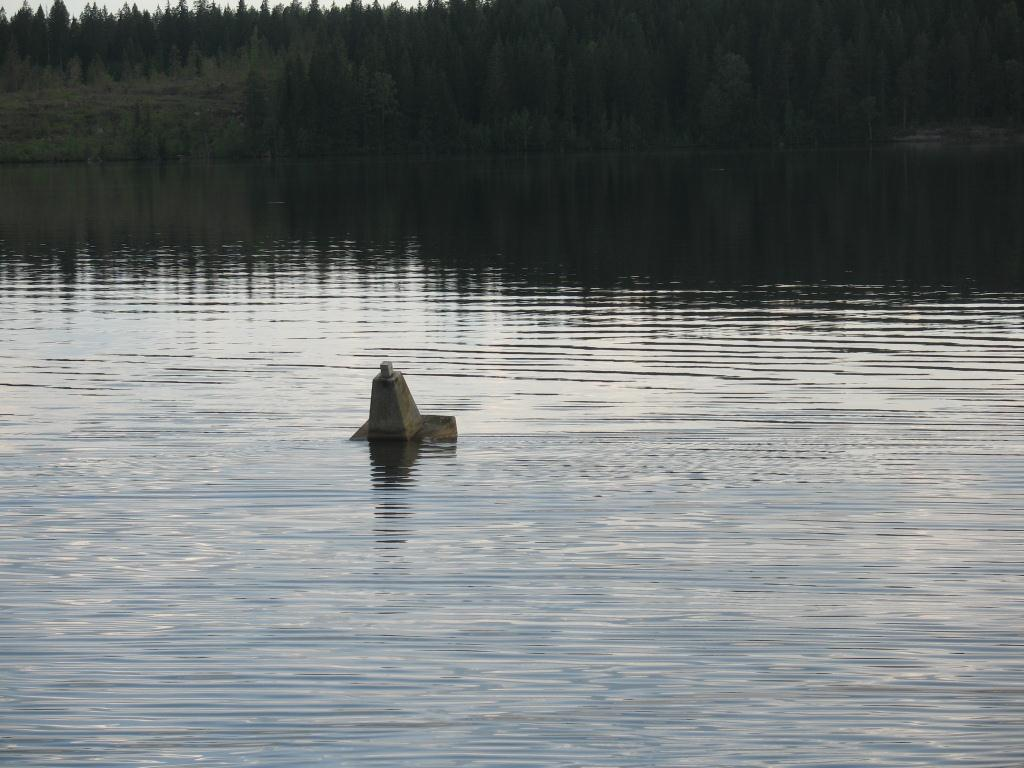 Border between Russia and Finland at Nuijamaa Lake